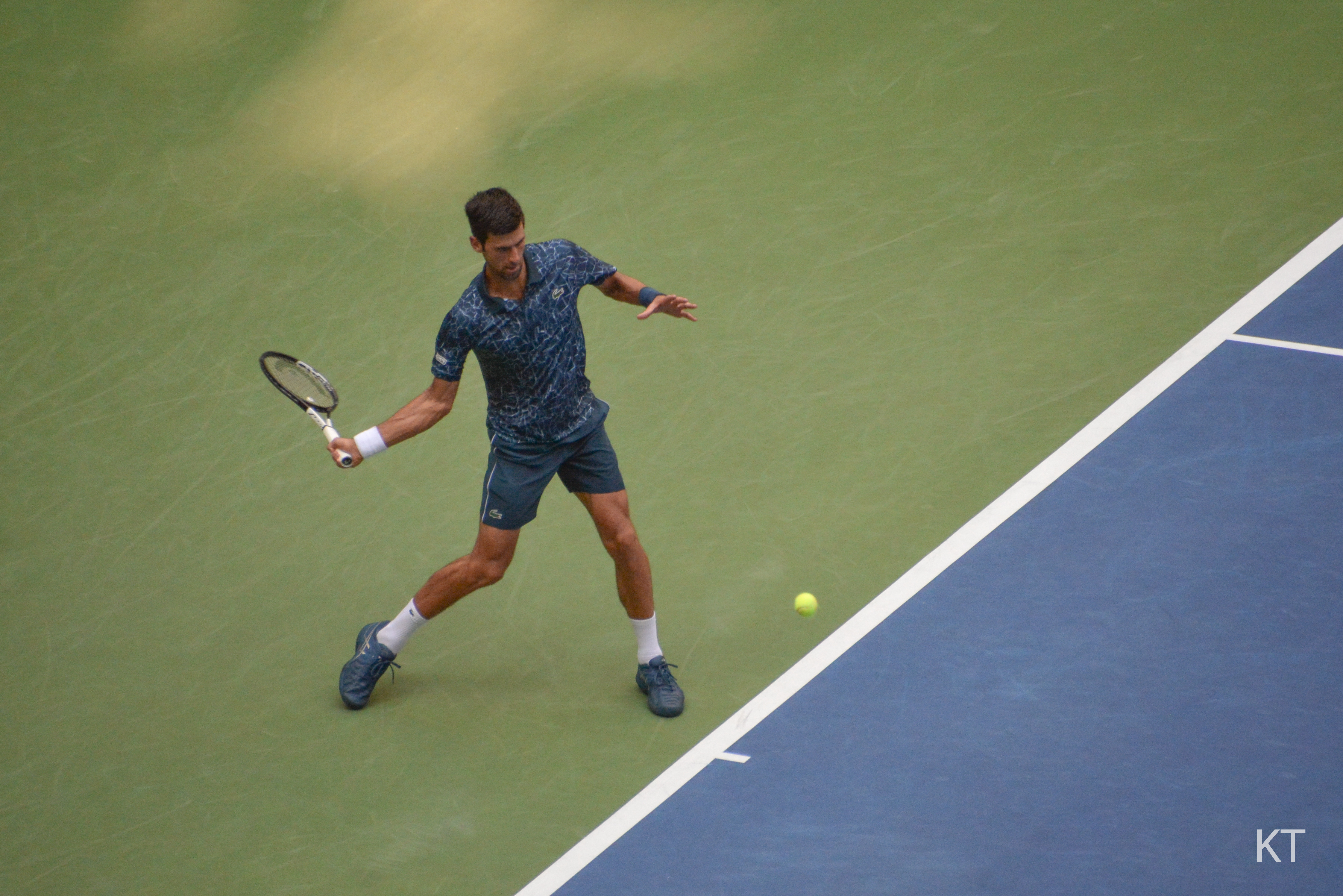 Day 2 of US Open 2018.